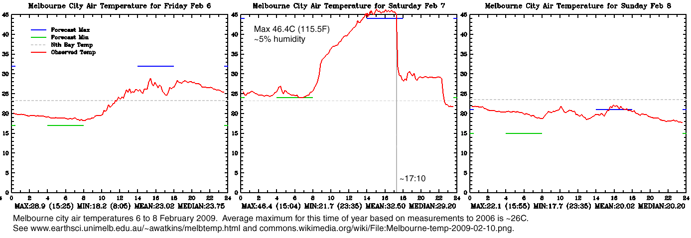 Three days of detailed temperature measurements from the Bureau of Meteorology weather station in Melbourne for 6 to 8 February 2009. The maximum of 46.4C (115.5F) was a record for any capital city in Australia. 7 February was the day of the worst fires in the 2009 Victorian bushfire season. See two other images, Melbourne-temp-2009-02-10.png and Melbourne-temp-2009-02-10-compact.png. These are public domain images and the licencing and OTRS details can be found there. This 3 day image is derived from Melbourne-temp-2009-02-10.png.